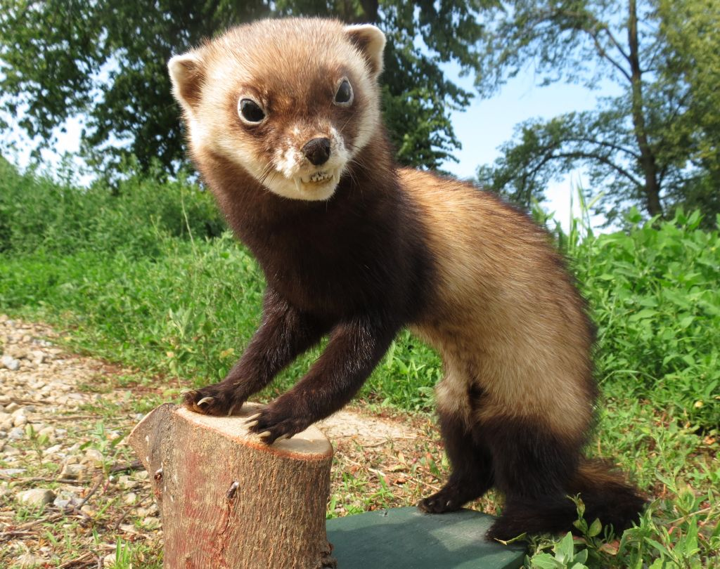 Mustela eversmannii (Steppe Polecat), dermoplastic specimen (taxidermy), origin: Dolní Němčí, Czech Republic